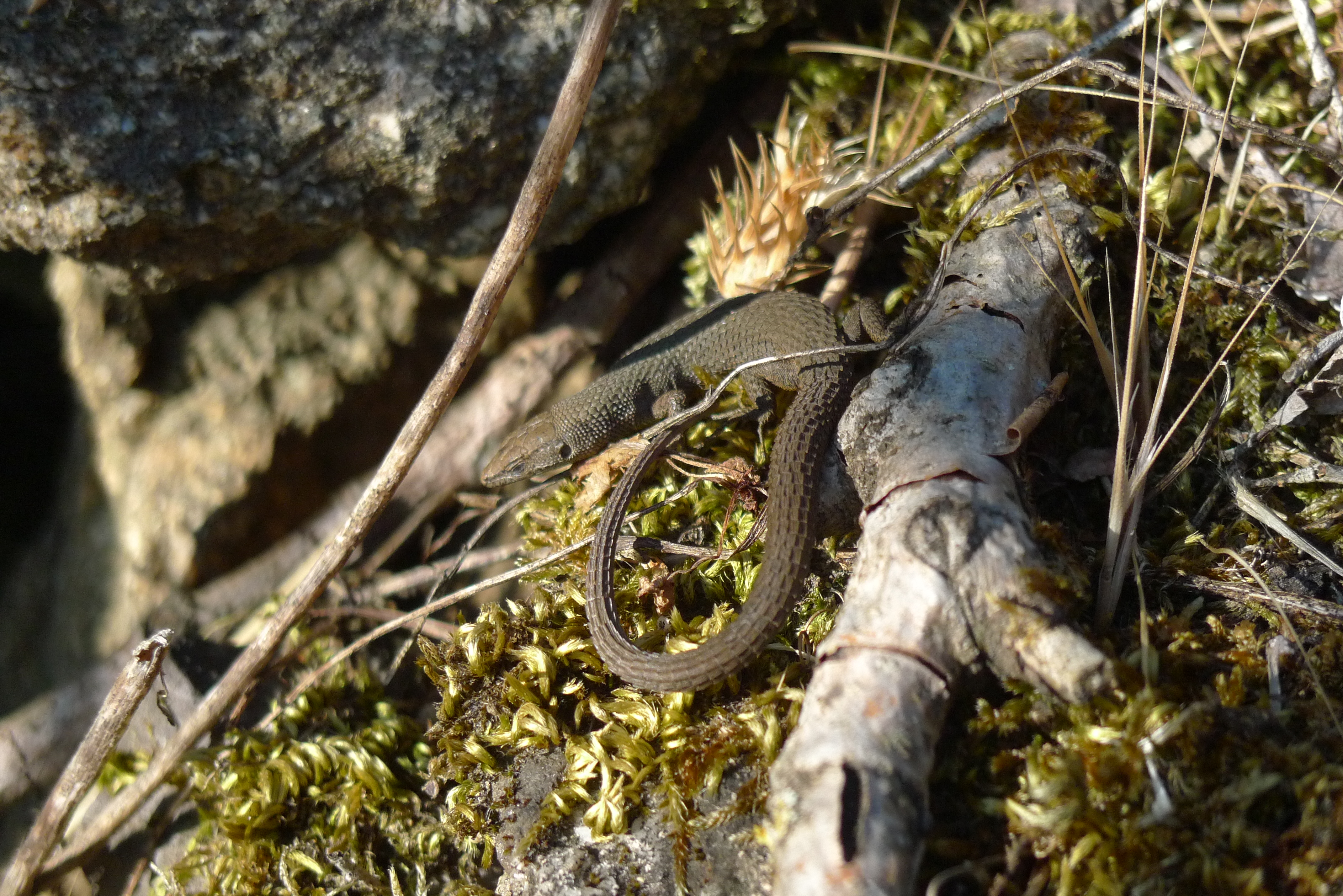 Fitzinger's Algyroides